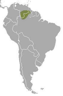 Beddard's Olingo (Bassaricyon beddardi) range